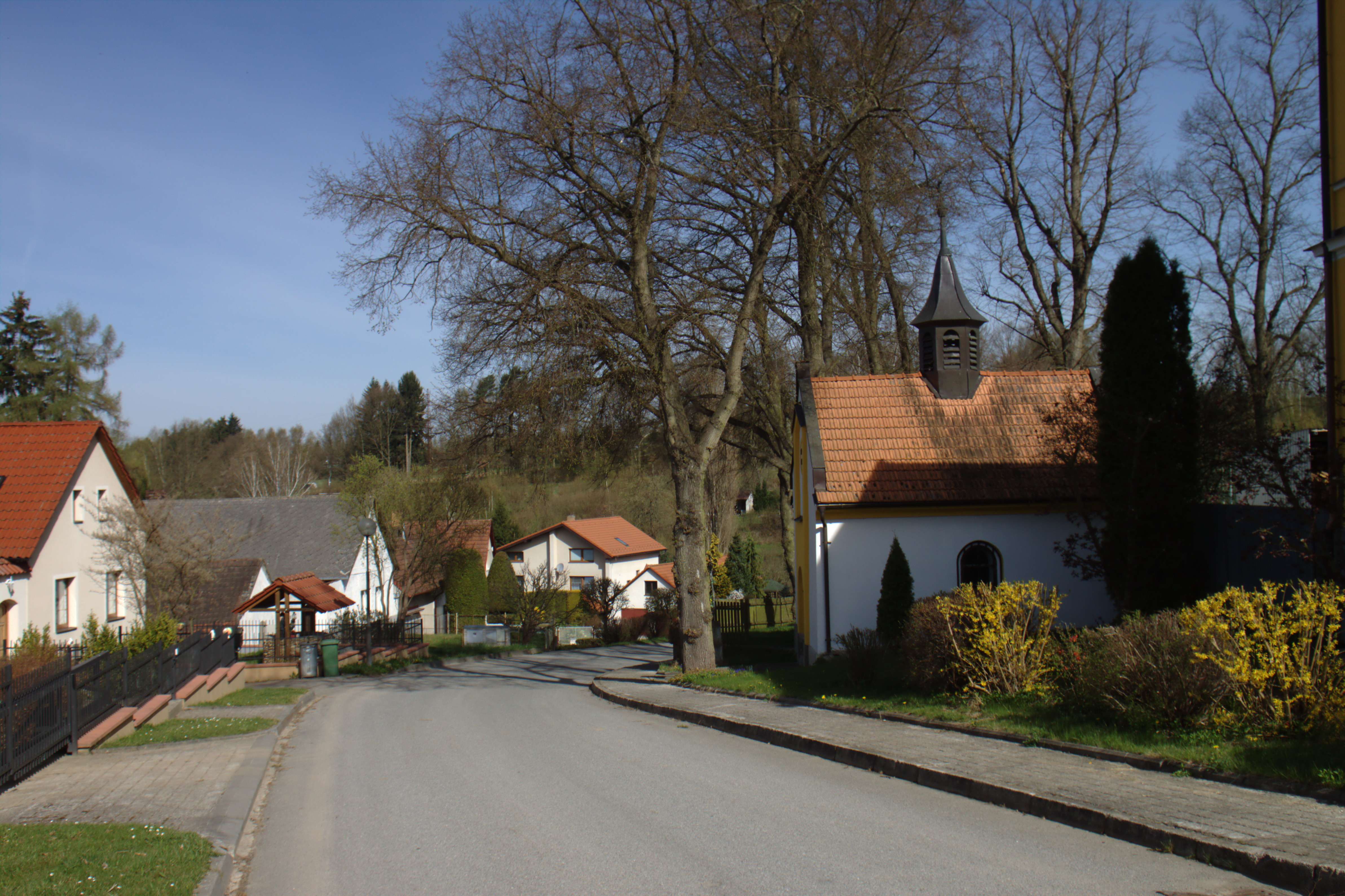 A chapel in Dubovice near Pelhřimov, Vysočina Region, CZ